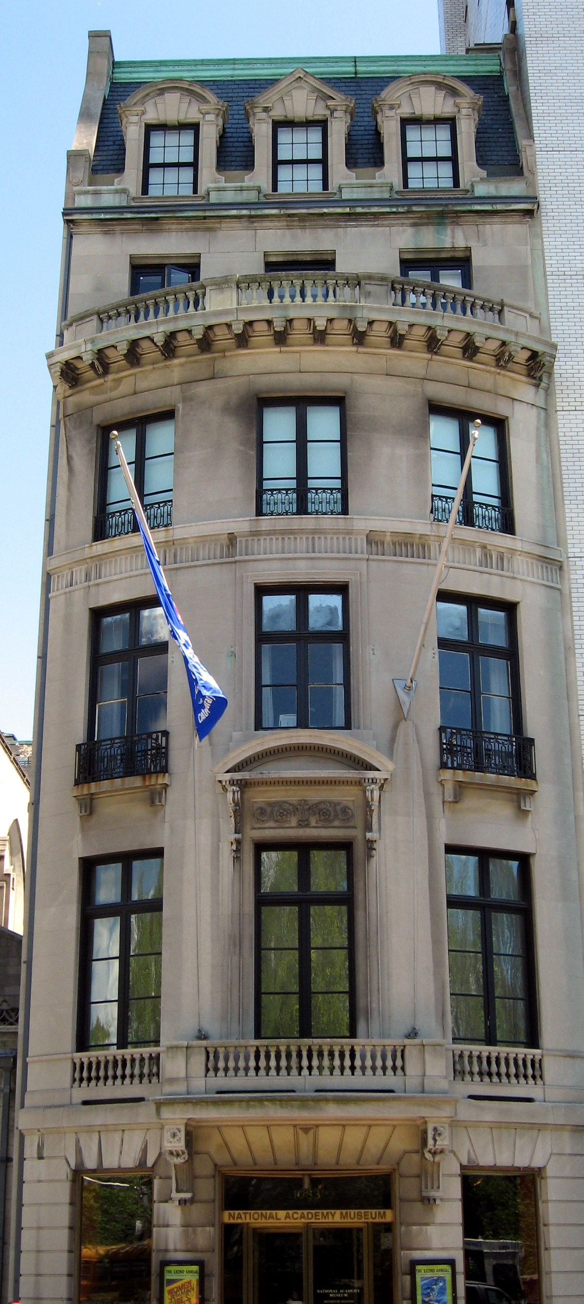 National Academy Museum in New York City.